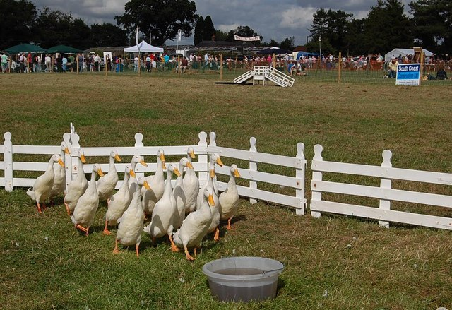 Frogam Fair keyword: ducks